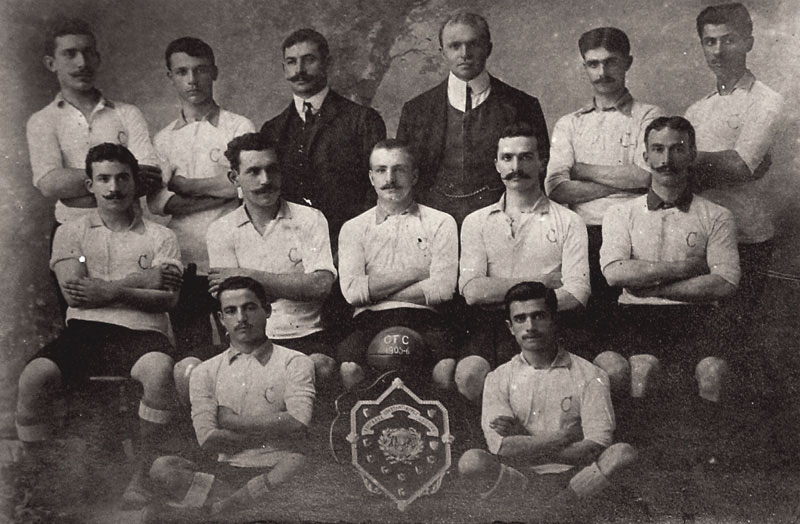 Cadi-Keuy FC, Istanbul Football League 1905-06 season champion squad.